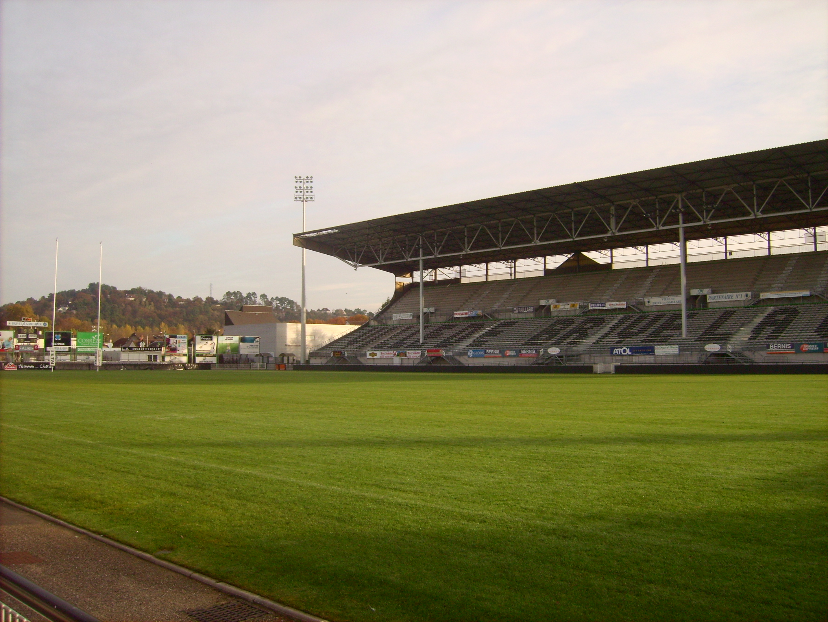 Stade Amédée-Domenech, Brive-la-Gaillarde